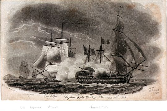 Capture of the William Tell